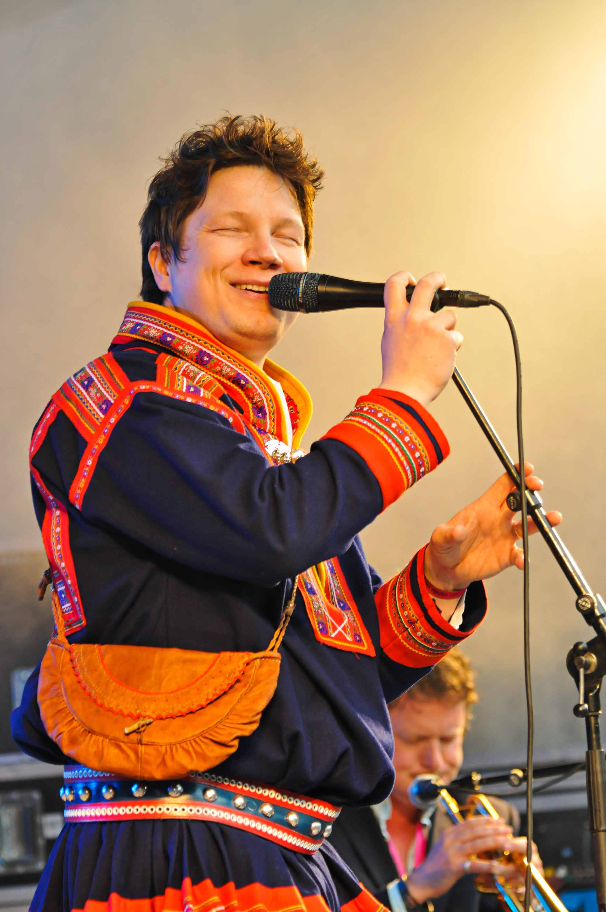 Niko Valkeapää on Riddu Riddu. Photo: Marius Fiskum